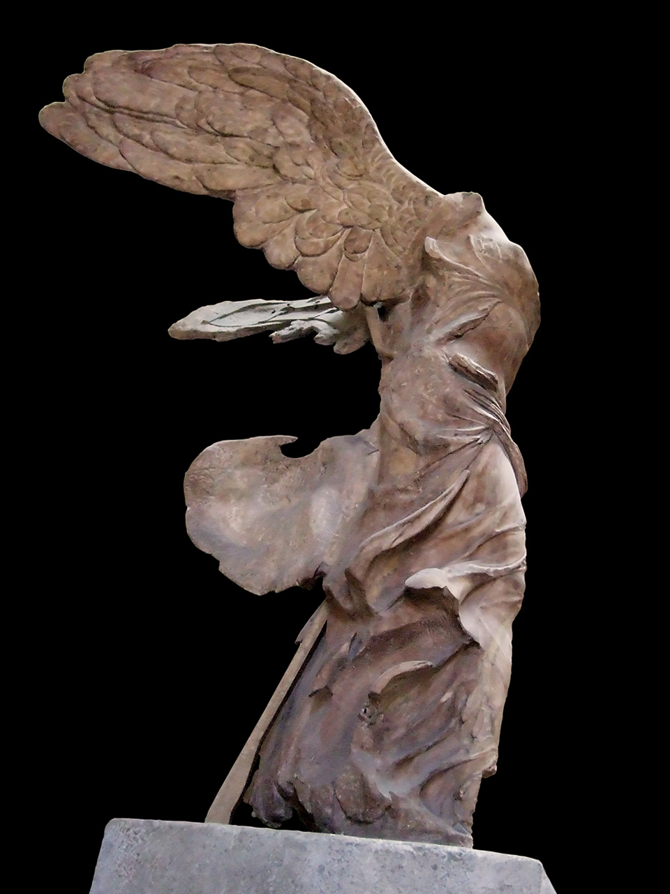 Winged Victory of Samothrace (Nike) at the Louvre. Distracting background masked out and levels adjusted. Fuji F11 Camera at ISO 1600.